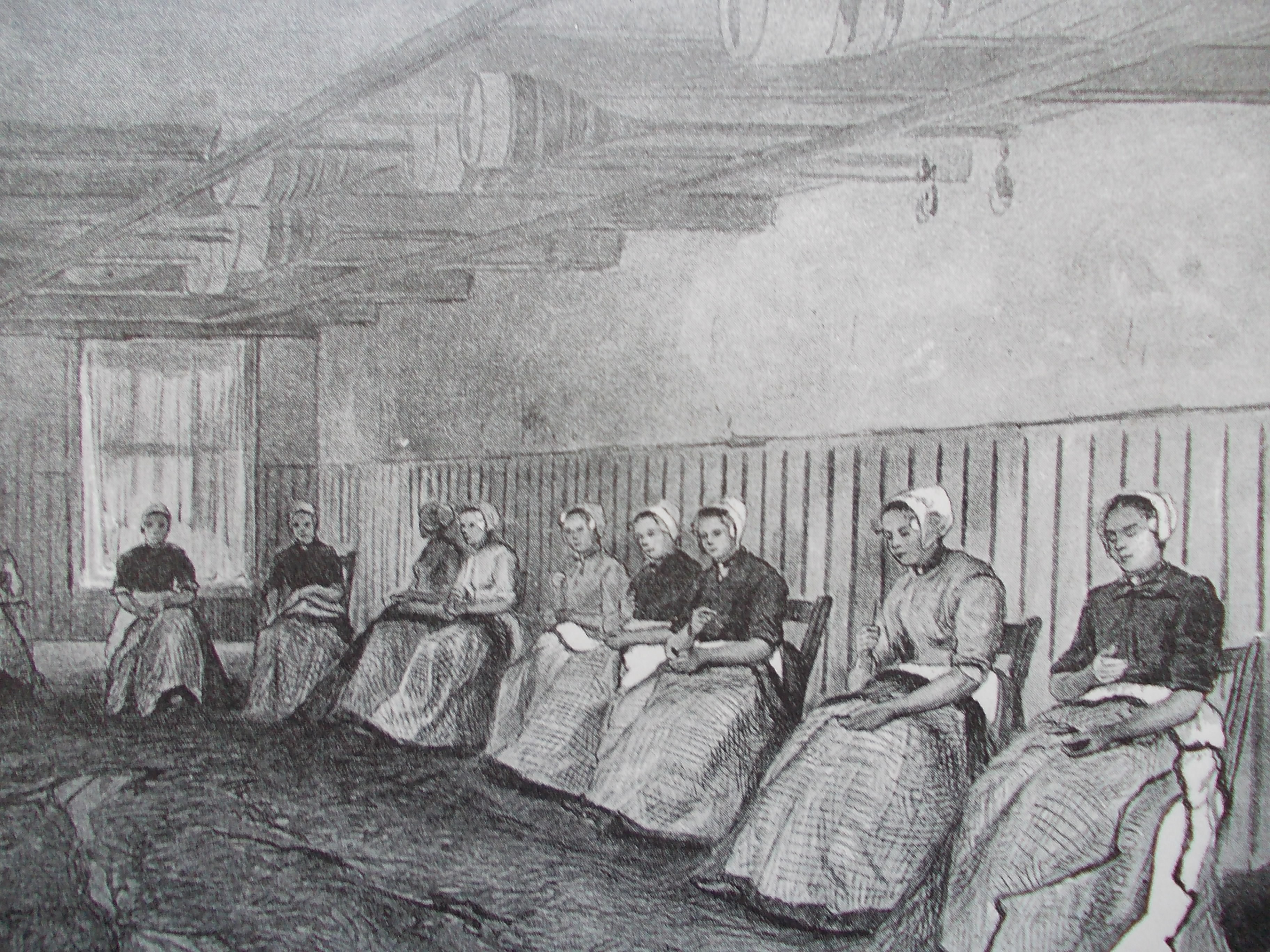 Women, repairing nets